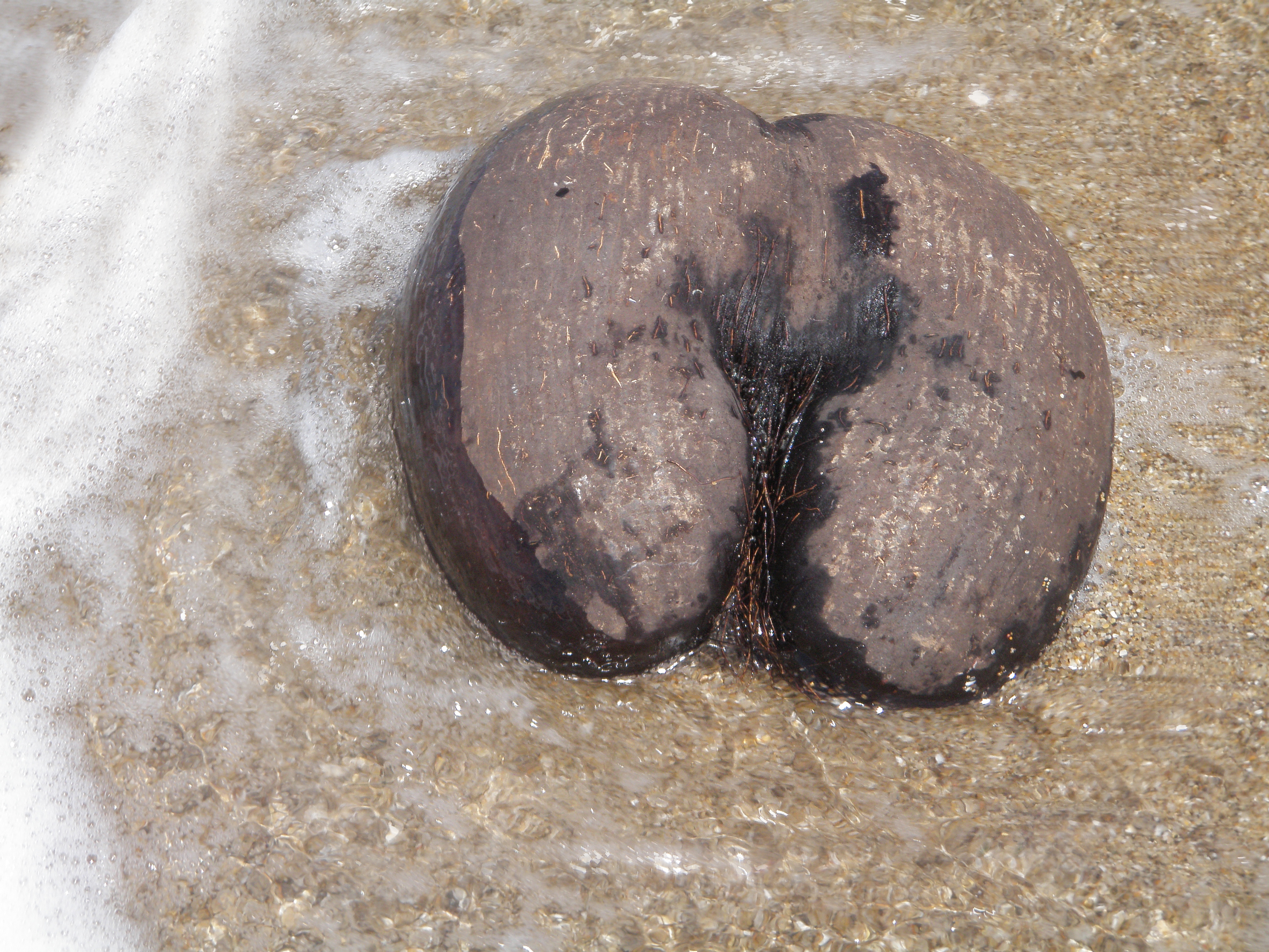 Female nut Coco de Mer and Ocean foam